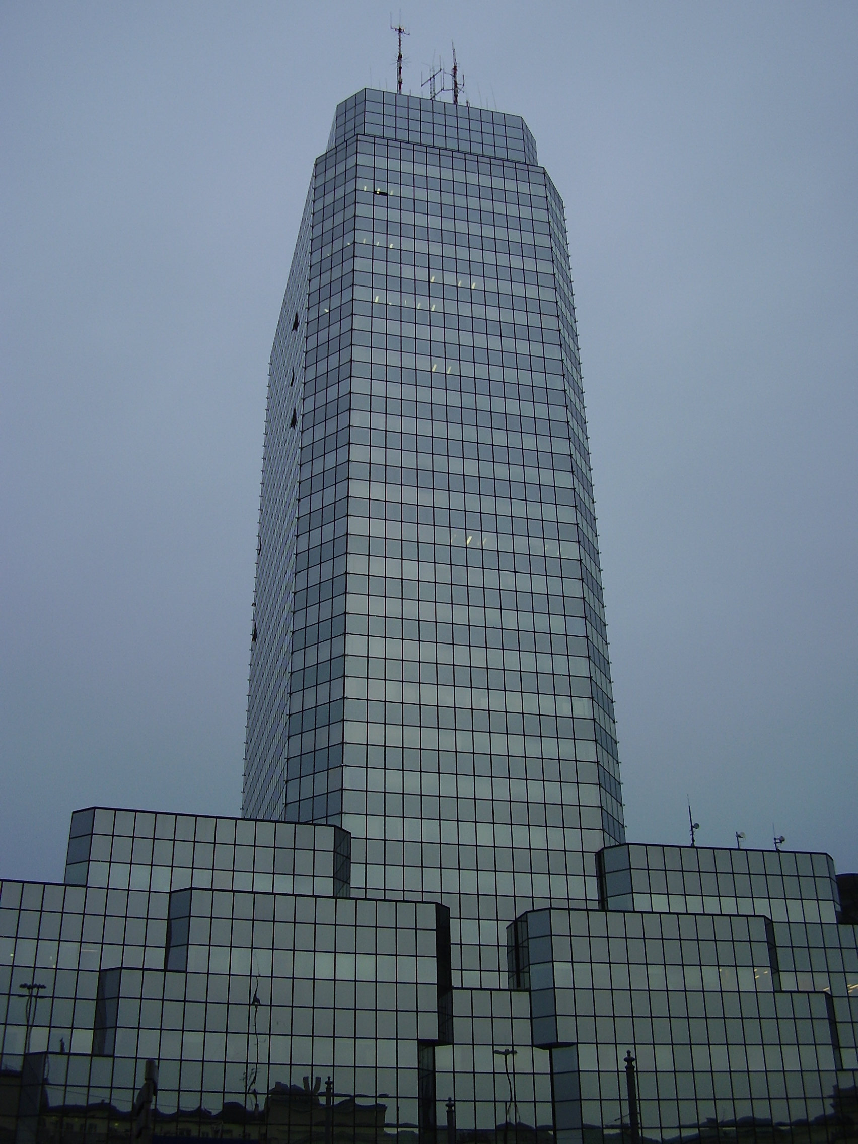 Warsaw during Easter 2008